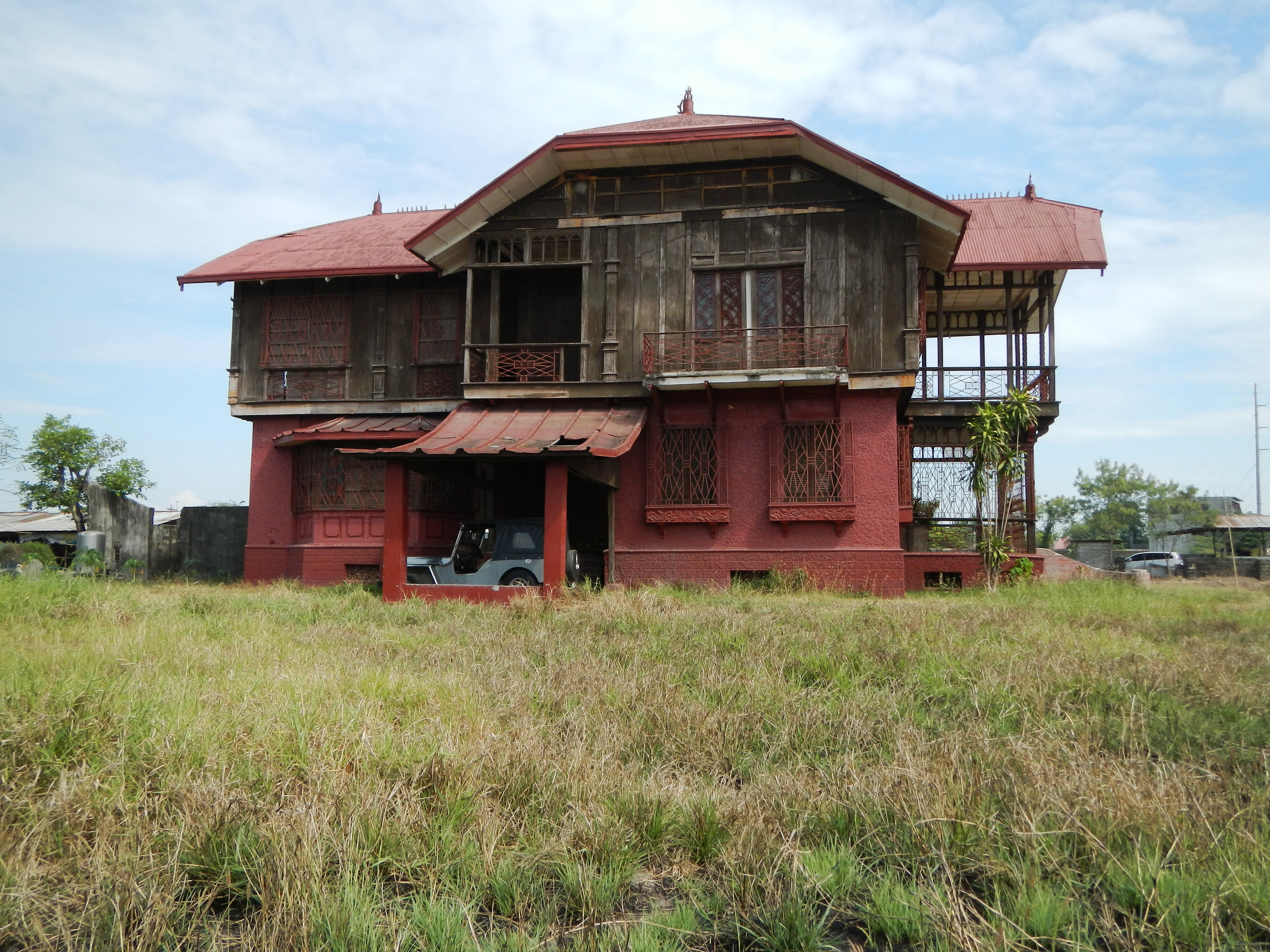 Don Ramon Ilusorio Mansion, Bahay na Pula (Haunted Red House in San Ildefonso, Bulacan) at Barangay Anyatam along the National Highway, with tamarind, camachile, duhat trees, uses as barracks by Japanese soldiers in WWII where 61 yourng Filipino comfort women were sex slaves, of mass rape, mostly from Bario Mapanique, Candaba, Pampanga; on November 23, 1944 Malaya Lola (Free Grandmothers).[1] Geki Group of the 14th District Army under Japanese Gen. Tomoyuki Yamashita, attacked the village of Mapanique, a suspected bailiwick of the Filipino rebel army, the Hukbo ng Bayan Laban sa Hapon. Ramon Ilusorio is Chairman Emeritus of the investment house Multinational Investment Bancorporation).